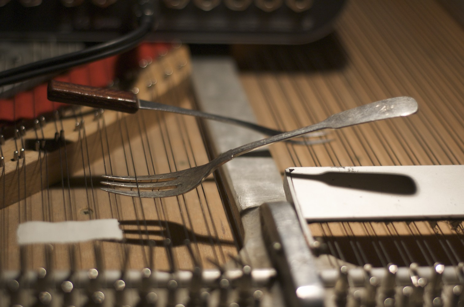 Andrea Neumann's prepared piano board "Inside Piano" (reduced piano to strings, resonance board and metal frame),[1] at Goethe-Institut Boston. Reference ↑ Suzuki, Yoshiyuki. Andrea Neumann Profile. Improvised Music from Japan. "In the process of exploring the piano for new sound possibilities, she has reduced the instrument to strings, resonance board and metal frame. ... Because the original inside piano is very heavy, a piano builder (Bernd Bittmann, Berlin) constructed a new and lighter one for her."